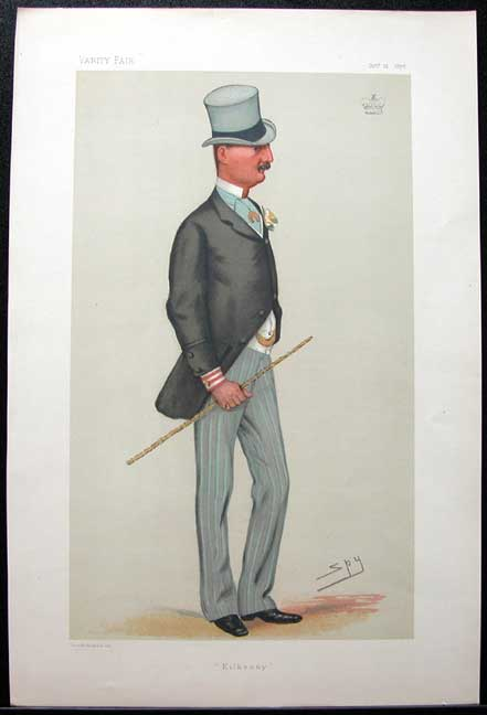 Statesmen No.286: Caricature of The Marquis of Ormonde. Caption reads: "Kilkenny"